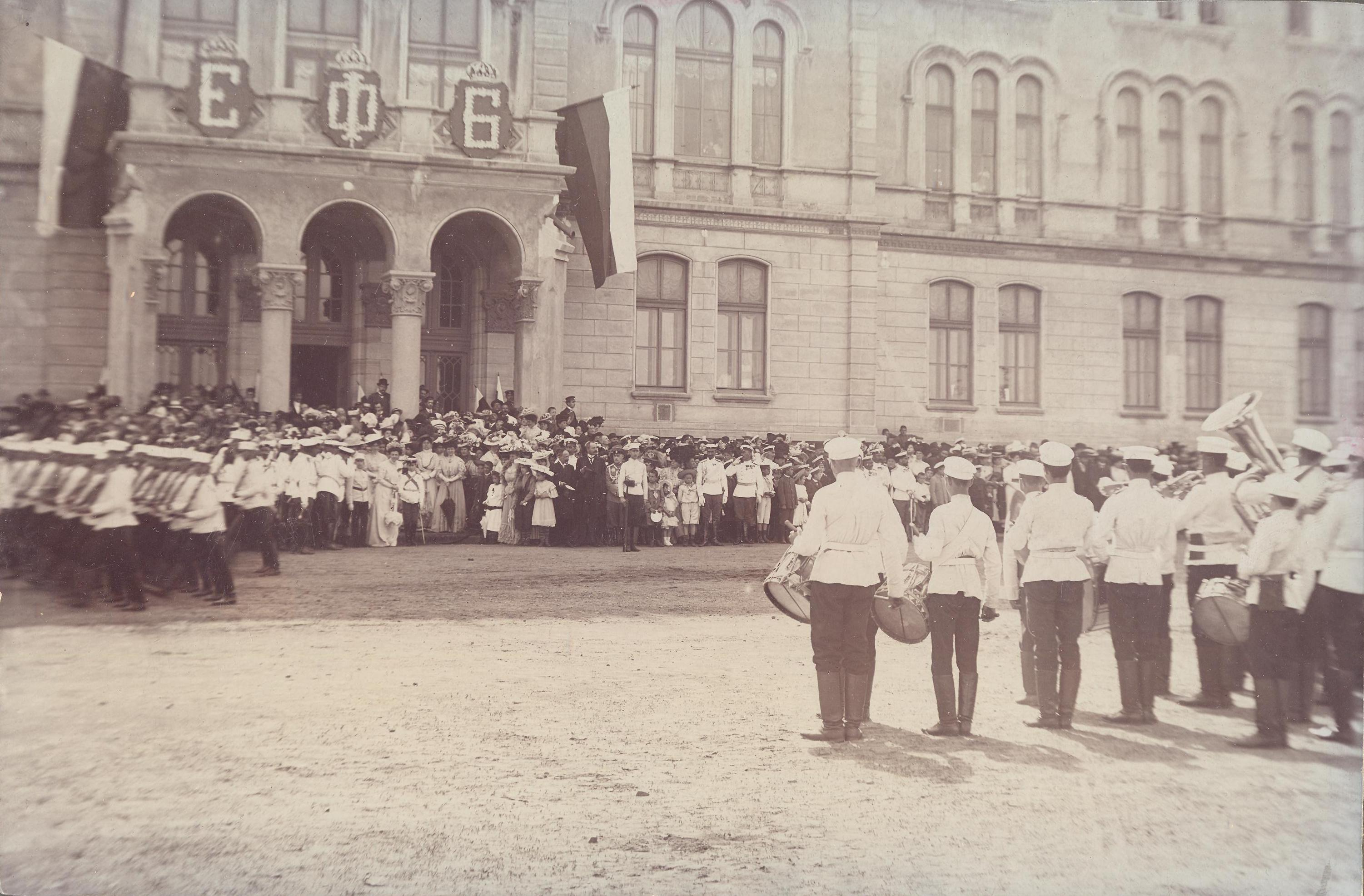 Military parades in Sofia, Bulgaria, 1923.